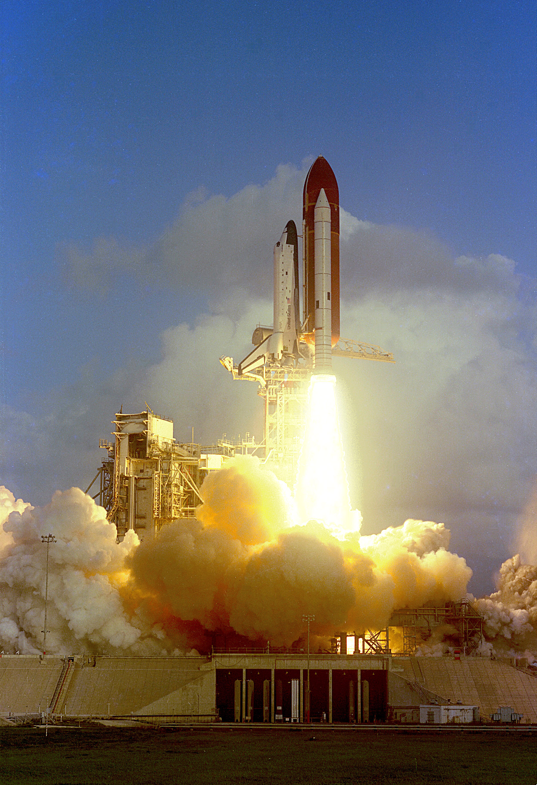 Space Shuttle Challenger launches on STS-7.